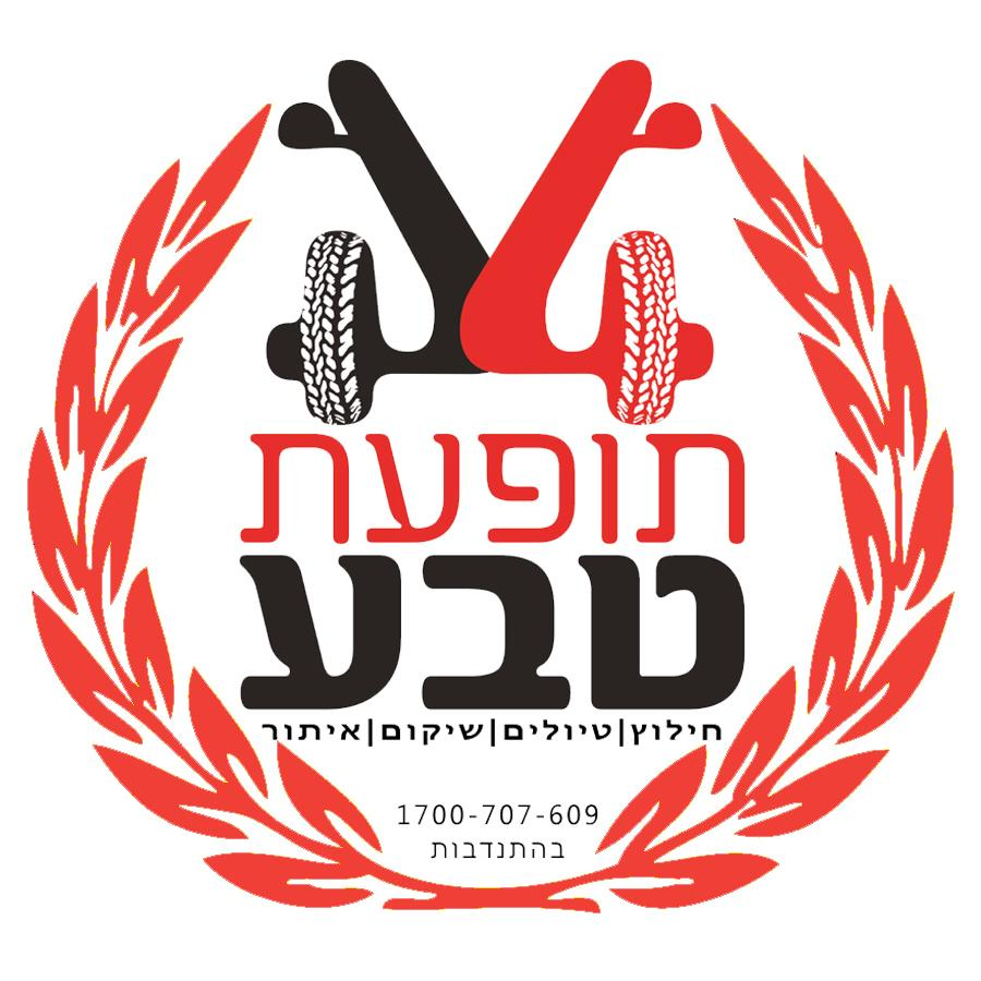 The logo of Toffat Teva in High Resolution